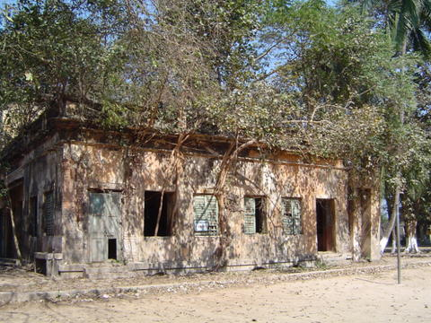 This is the condemned old block of Barasat Peary Charan Sarkar Government High School.